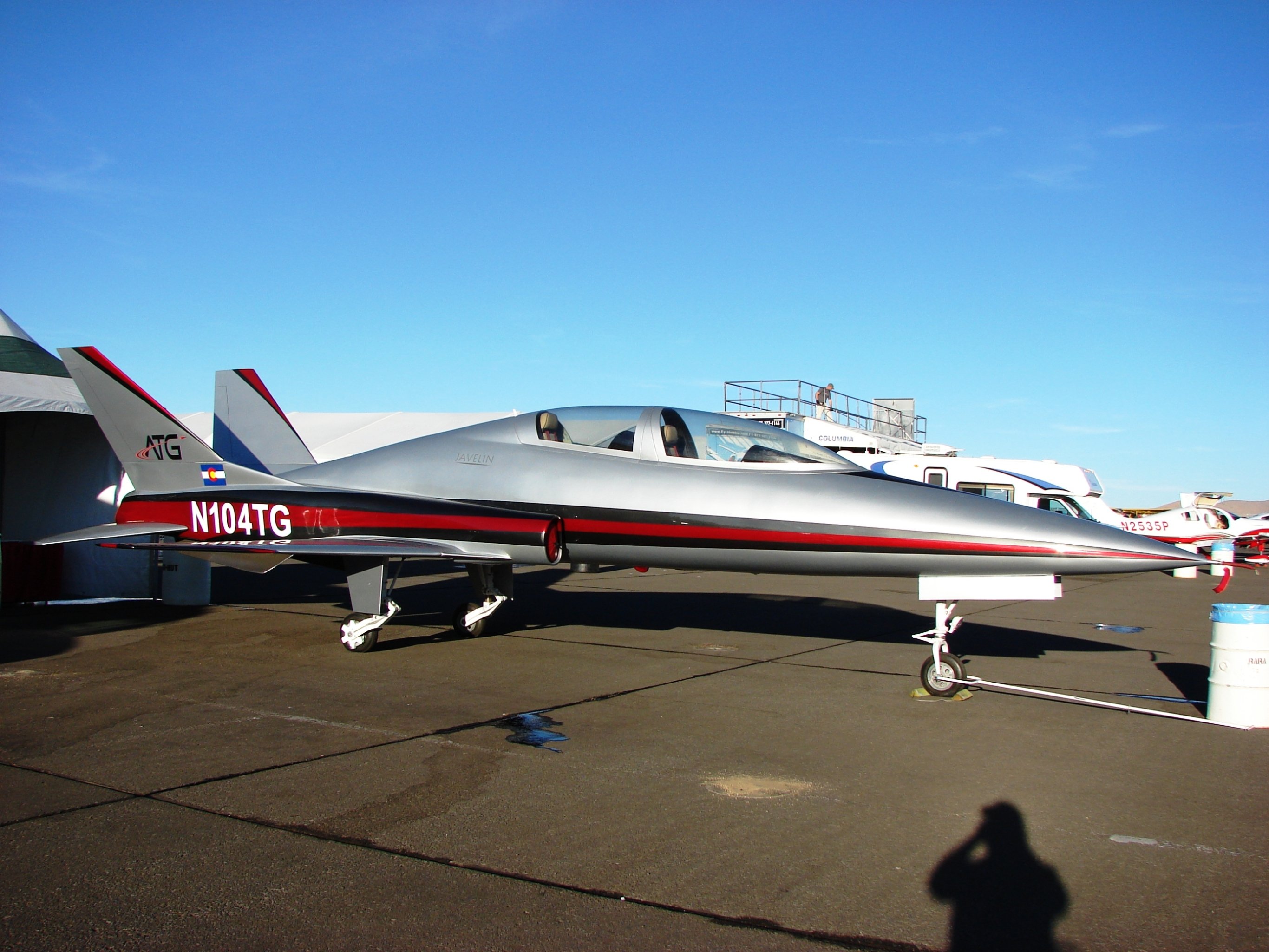 Javelin at Reno Air Show. Calyponte 05:44, 7 November 2006 (UTC)